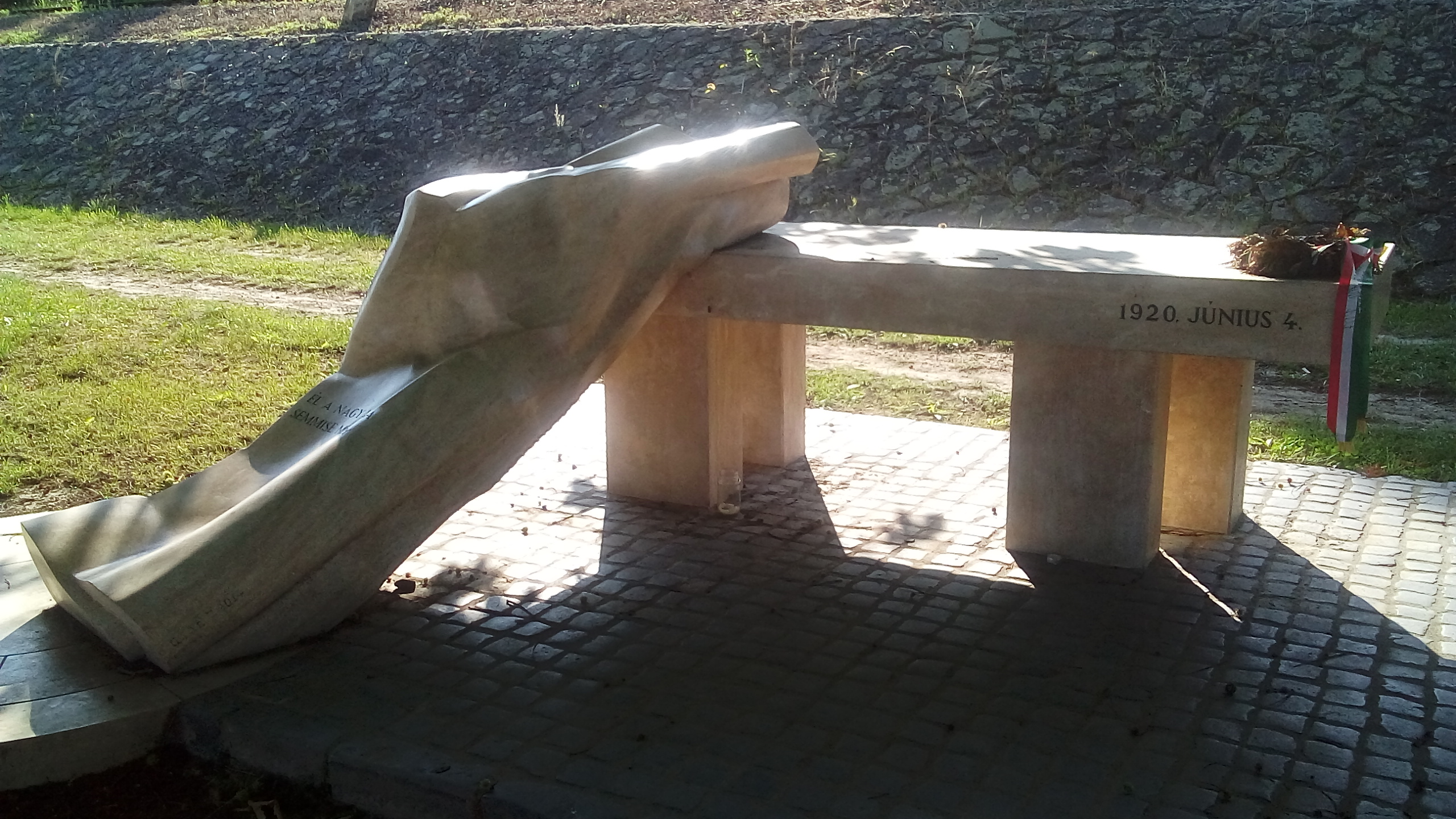 Trianon Memorial in Paks, Hungary, built in 2014